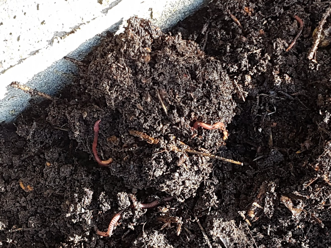 This shows a result of bokashi soil improvement. Fermented bokashi preserve was added to this 'garden soil factory' a few weeks earlier and has been consumed by the soil food web. In the photo, three indigenous species of worm are enthusiastically dealing with some remains. The texture of the soil has begun to take on the character of vermicompost.